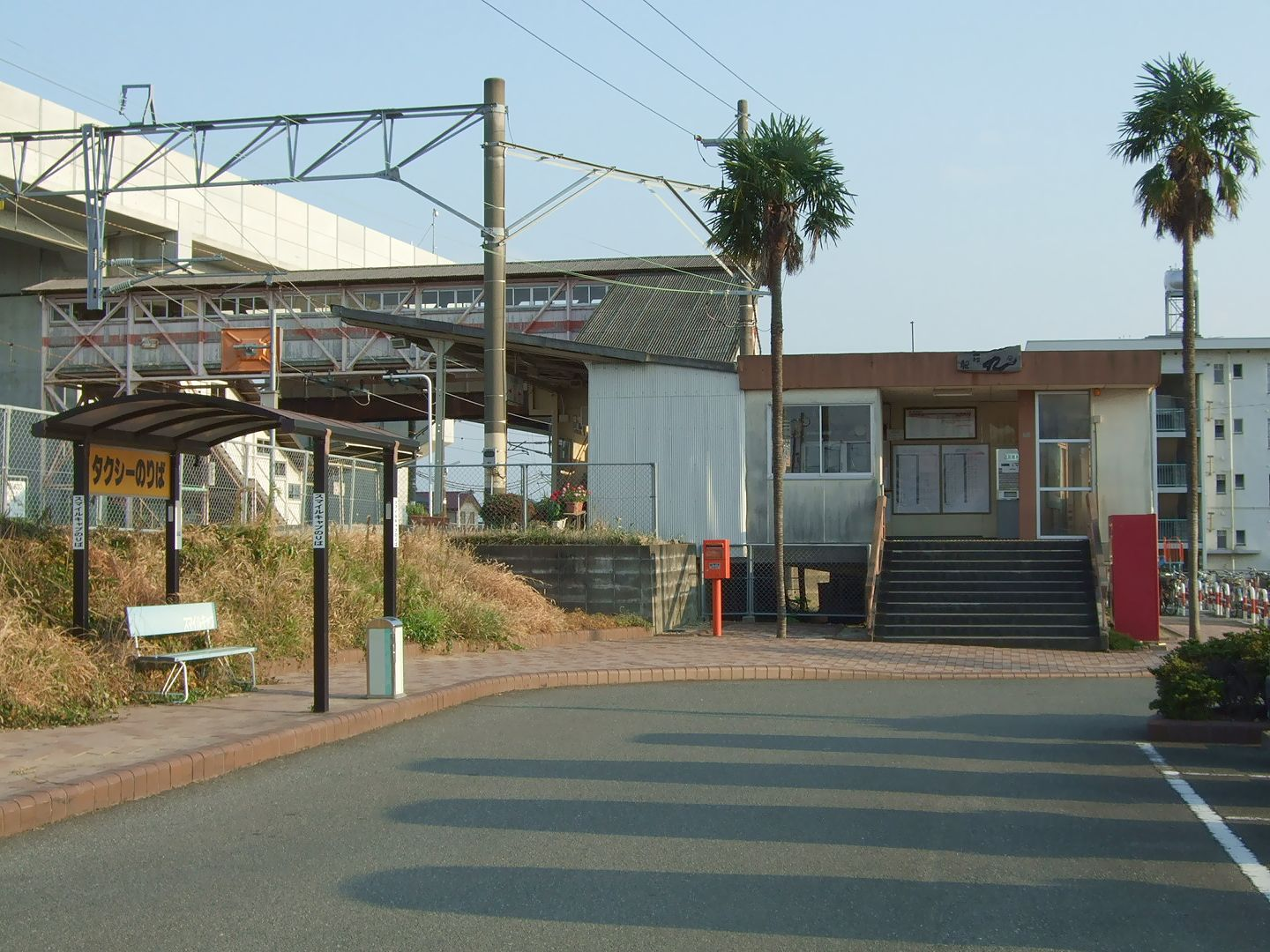 Hizen-Asahi Station, Kagoshima Main Line, JR Kyushu.